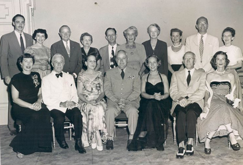 General George Olmstead was Vice President of UWF and attended the organizaton's 1952 national convention in Philadelphia. Here he is pictured with members of the organization's Florida branch.